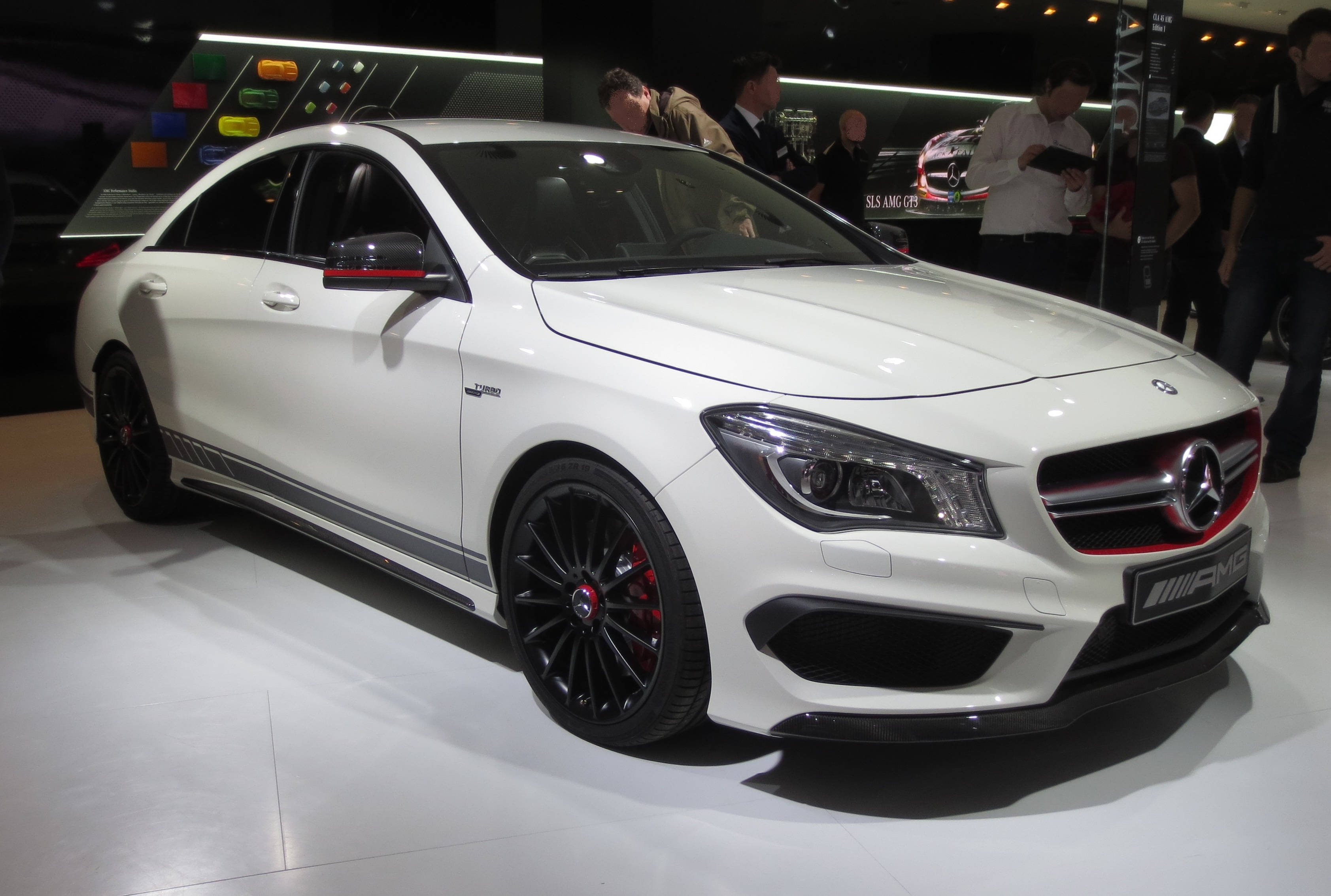 Subject: Mercedes-Benz CLA45 AMG Author: Luc106 Date:September 17th, 2013 Event: IAA 2013 Place/Country: Frankfurtermesse, Frankfurt am Main (Deutschland) I release all rights in the public domain. Licensing